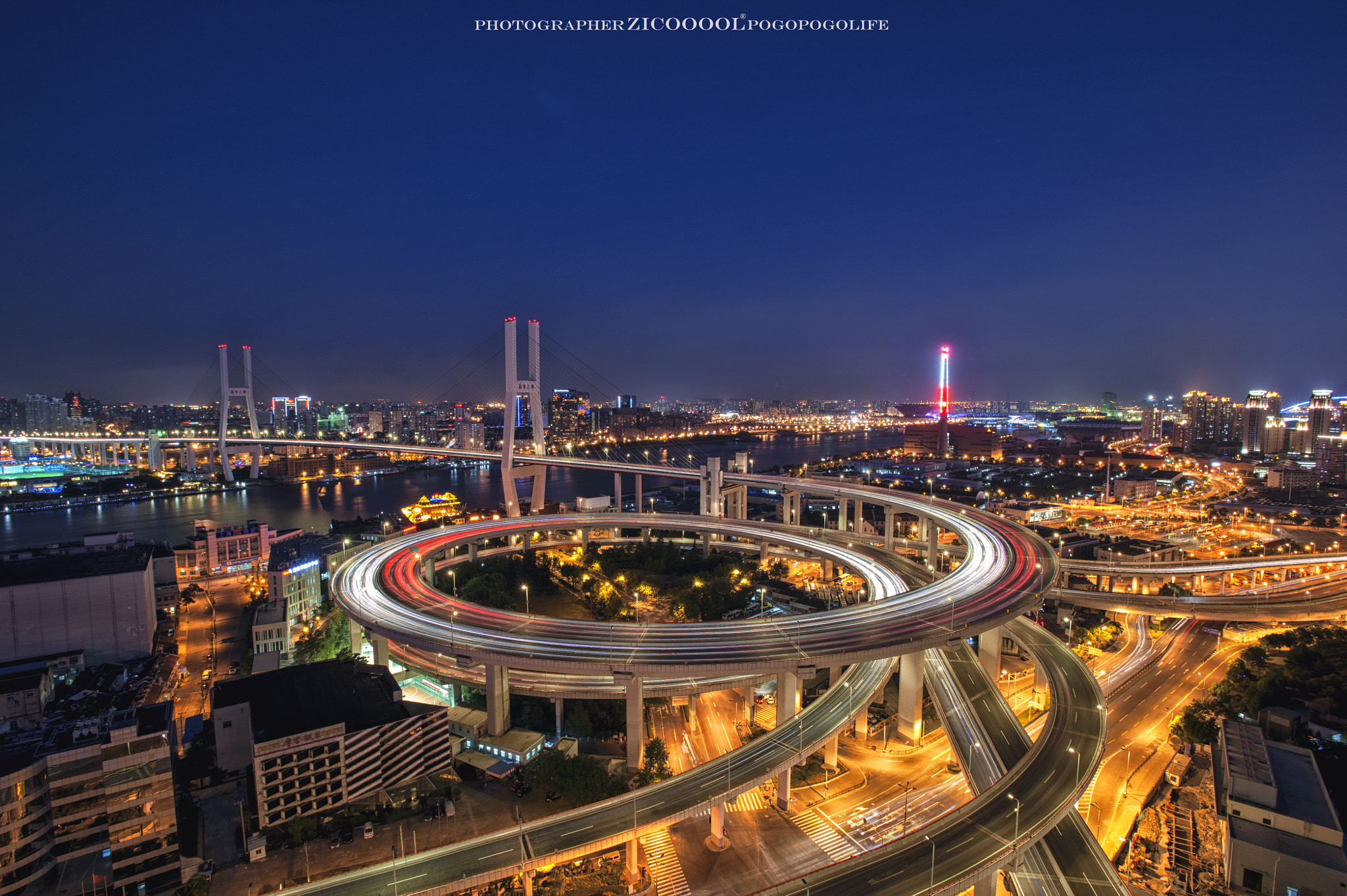 500px provided description: Nanpu Bridge [#sky ,#city ,#beauty ,#street ,#water ,#travel ,#blue ,#night ,#light ,#clouds ,#cityscape ,#bridge ,#summer ,#beautiful ,#midnight]